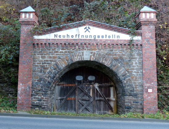 Mundloch des Neuhoffnungsstollen in Bad Ems, 1917, Arzbacher Straße 57